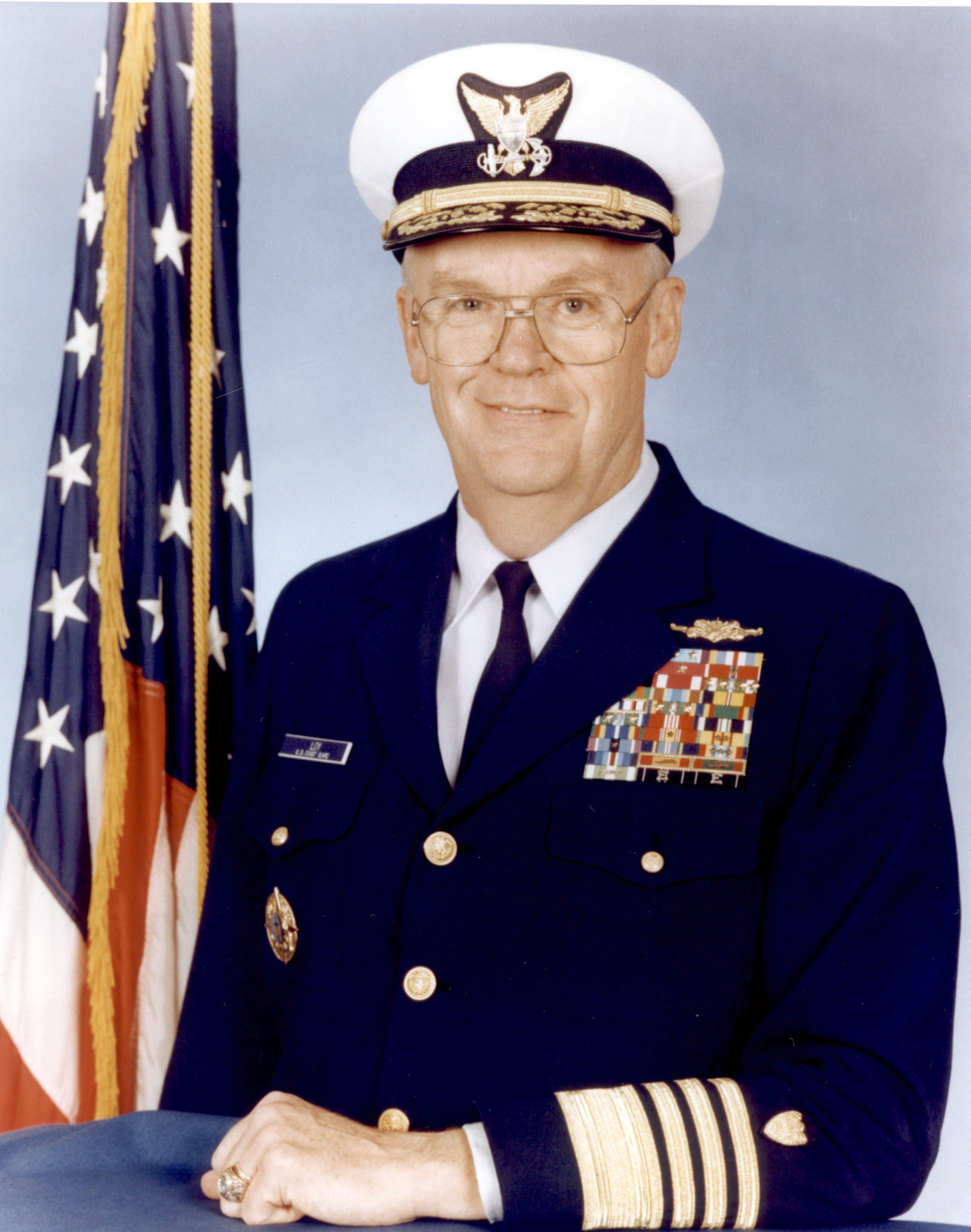 Admiral James Loy, 21st Commandant of the U.S. Coast Guard